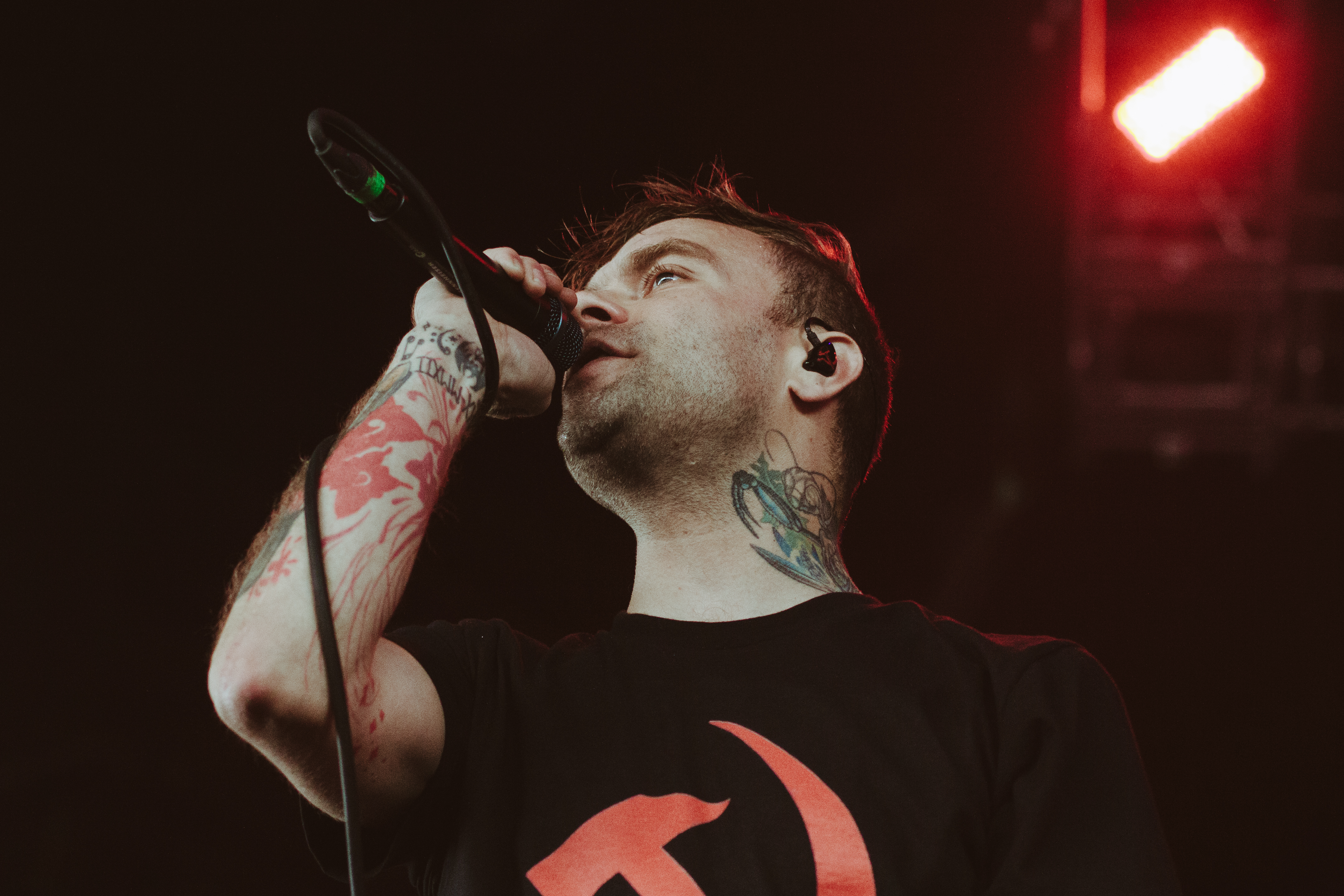 The_Used-3058